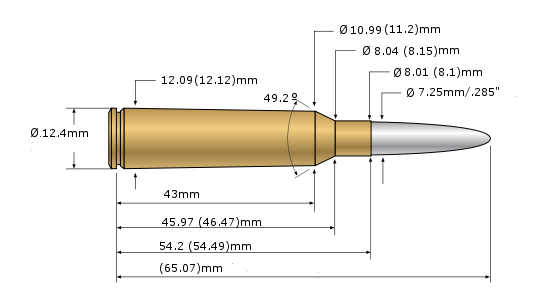 dimensions of 7x54 cartige measured from shot shell and cartige loaded by Lapua